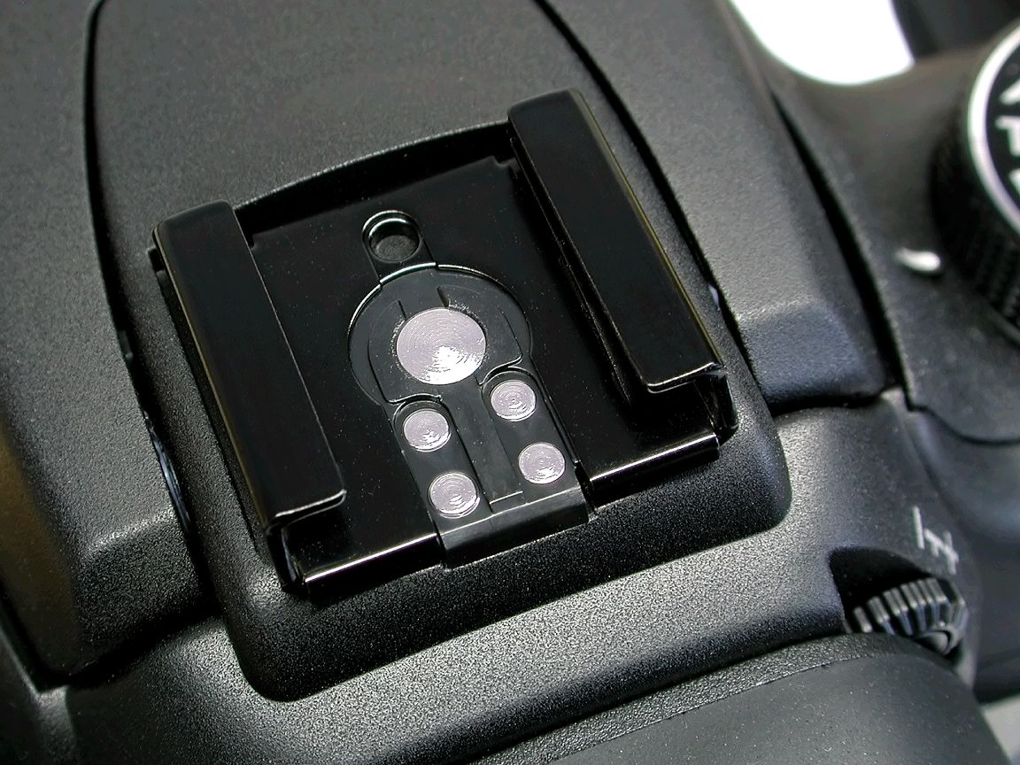 Flash Hot-Shoe of a camera, here of a Canon EOS 350D.